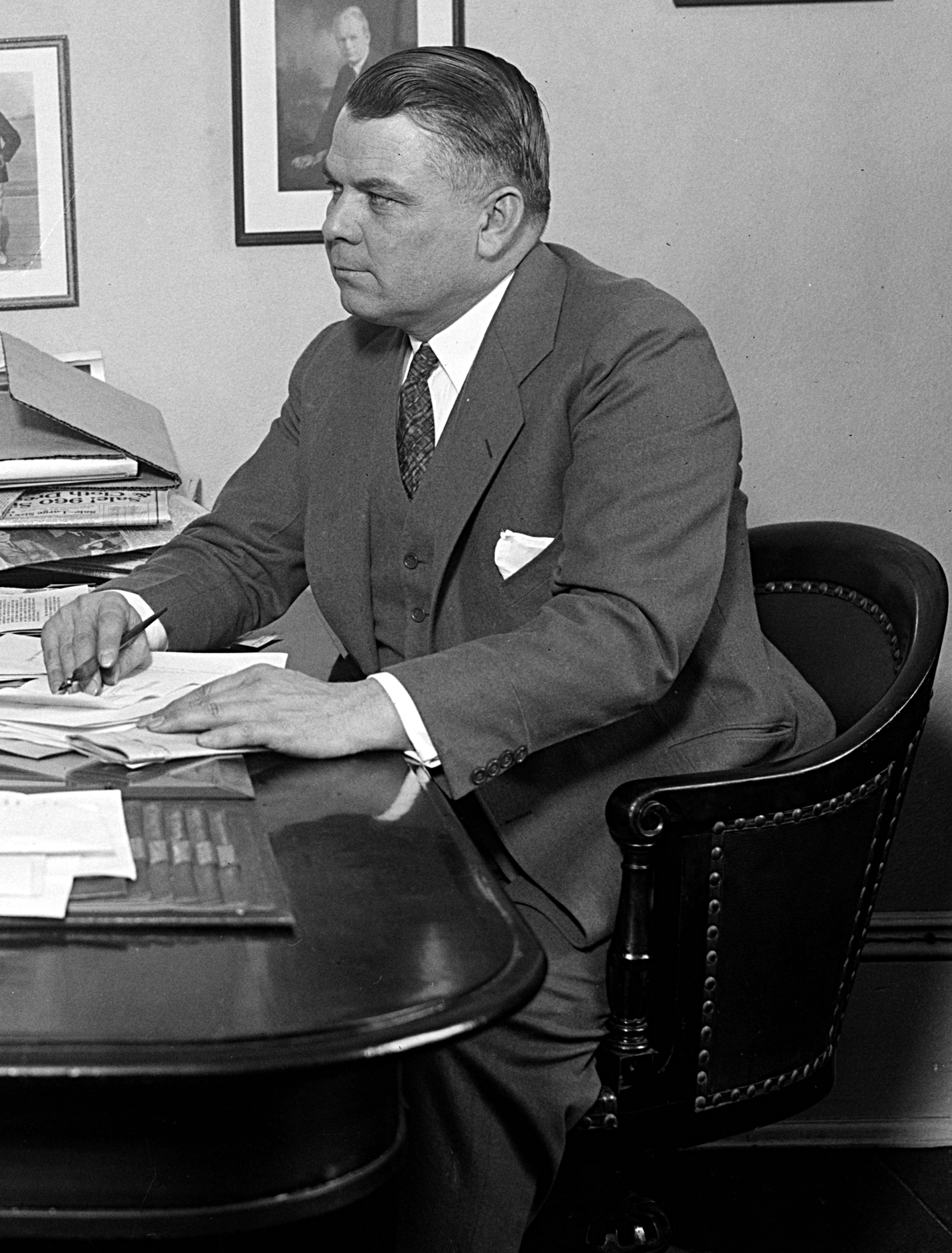 John B. Sosnowski, US Representative from Michigan